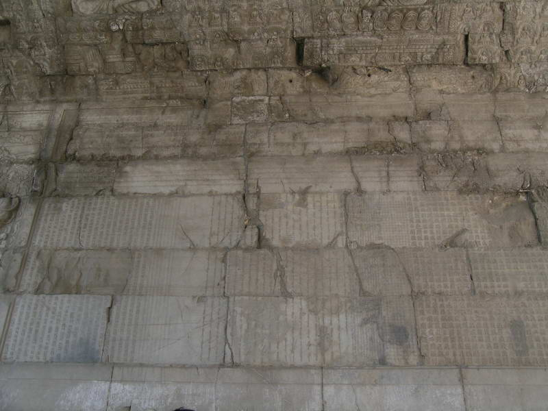 居庸关云台内的雕刻的多种文字(Several languages on the Juyongguan Pass Cloud Platform)